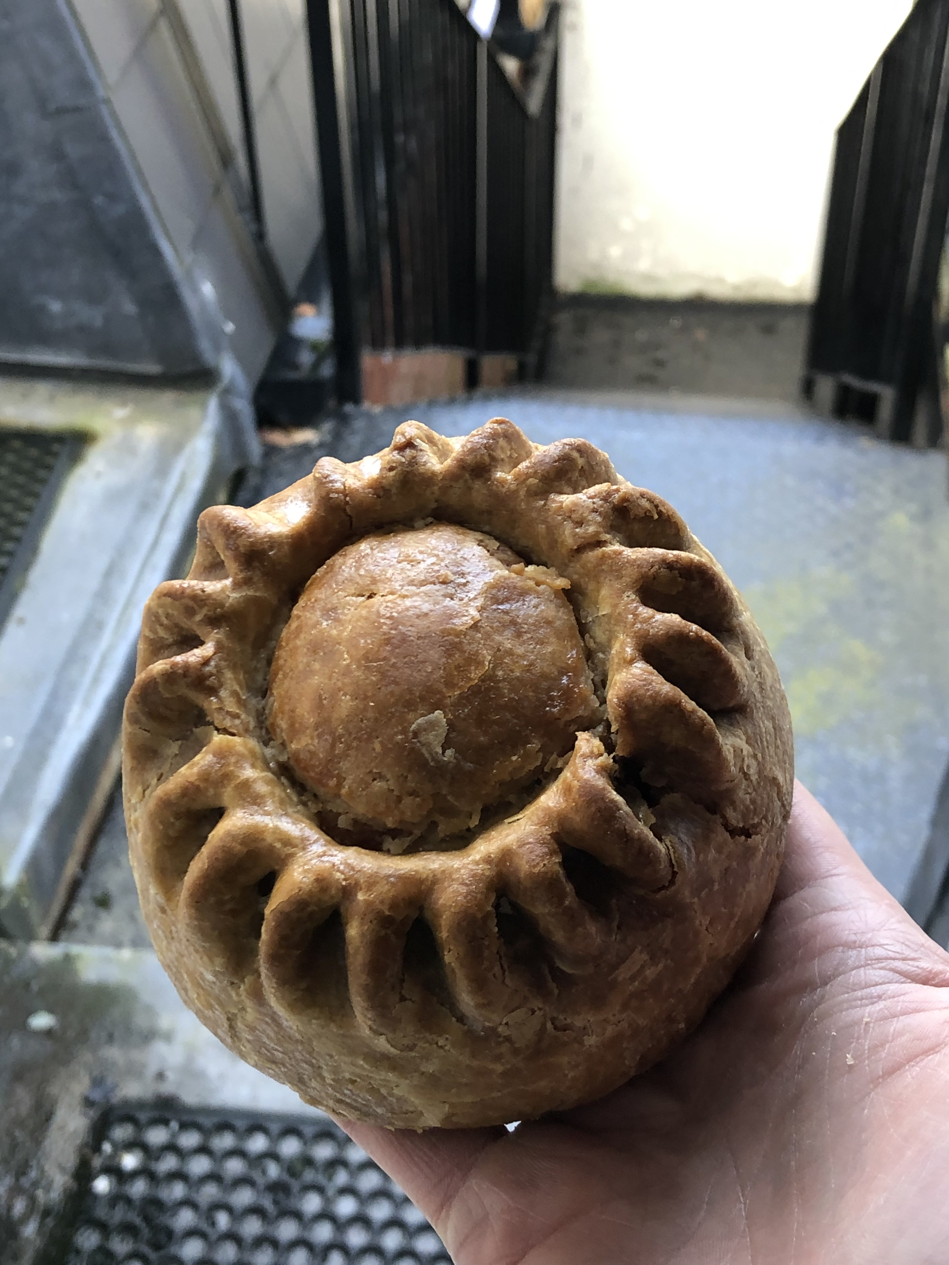 Large British Pork Pie